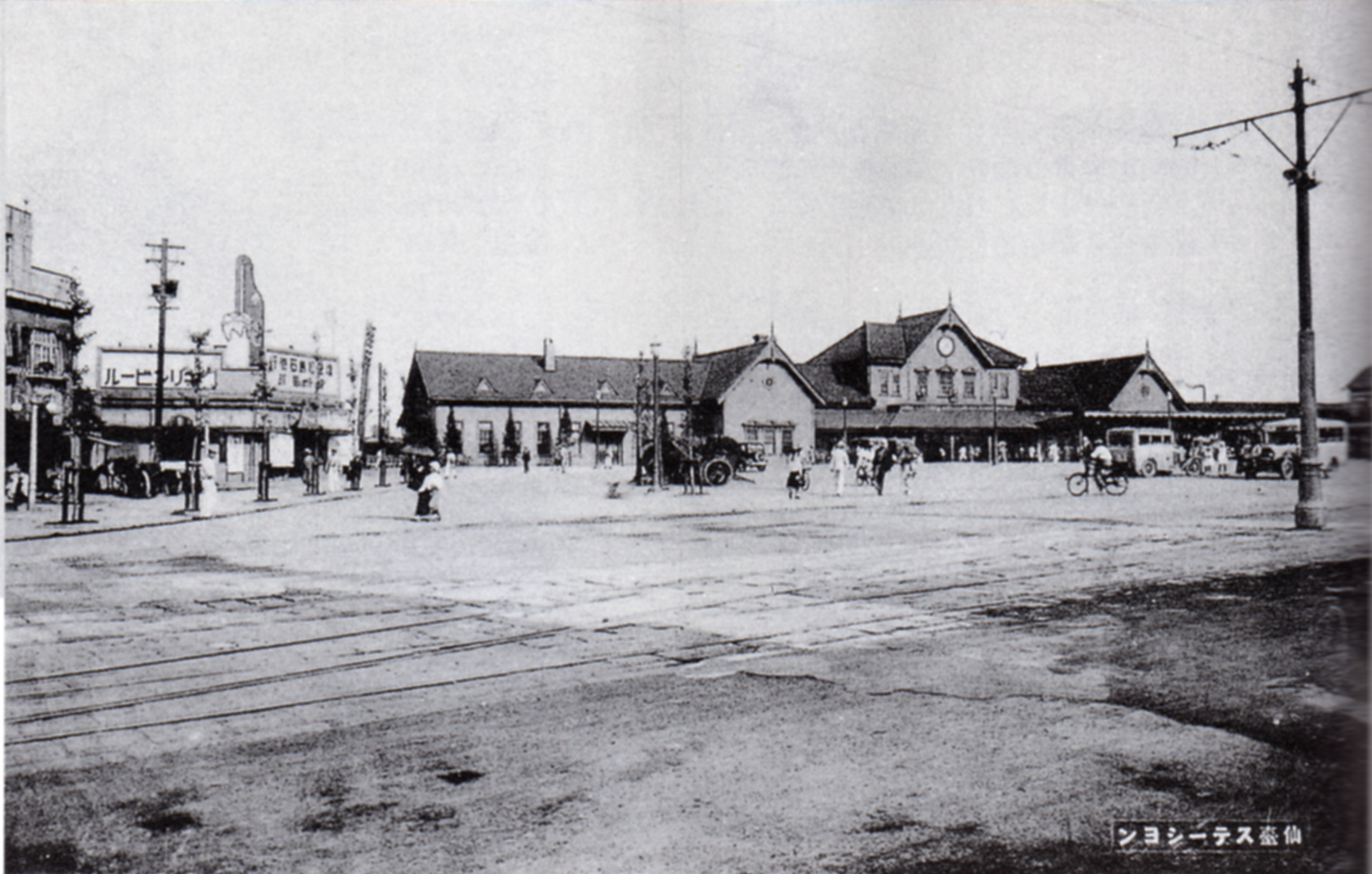 The main building of Sendai station, Sendai, Miyagi, Japan. The building was 2nd generation and built in 1894, burnt down in 1945 due to airraid in the WW2.